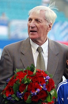 Soviet football player Viktor Tsryov